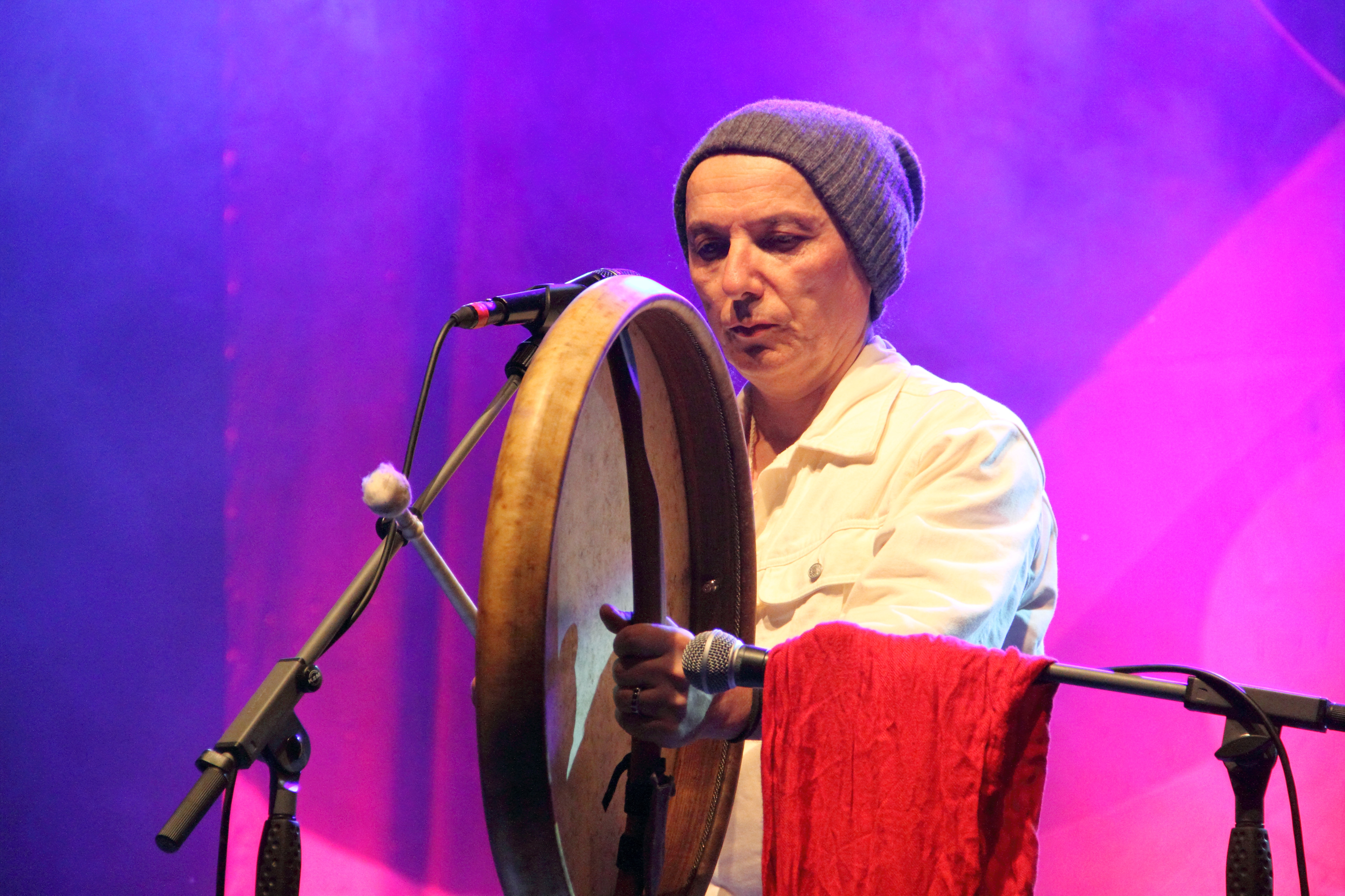 The Norwegian Sami musician and composer Torgeir Vassvik and the Quartett Vassvik play traditional yoik at TFF Rudolstadt, 2015.